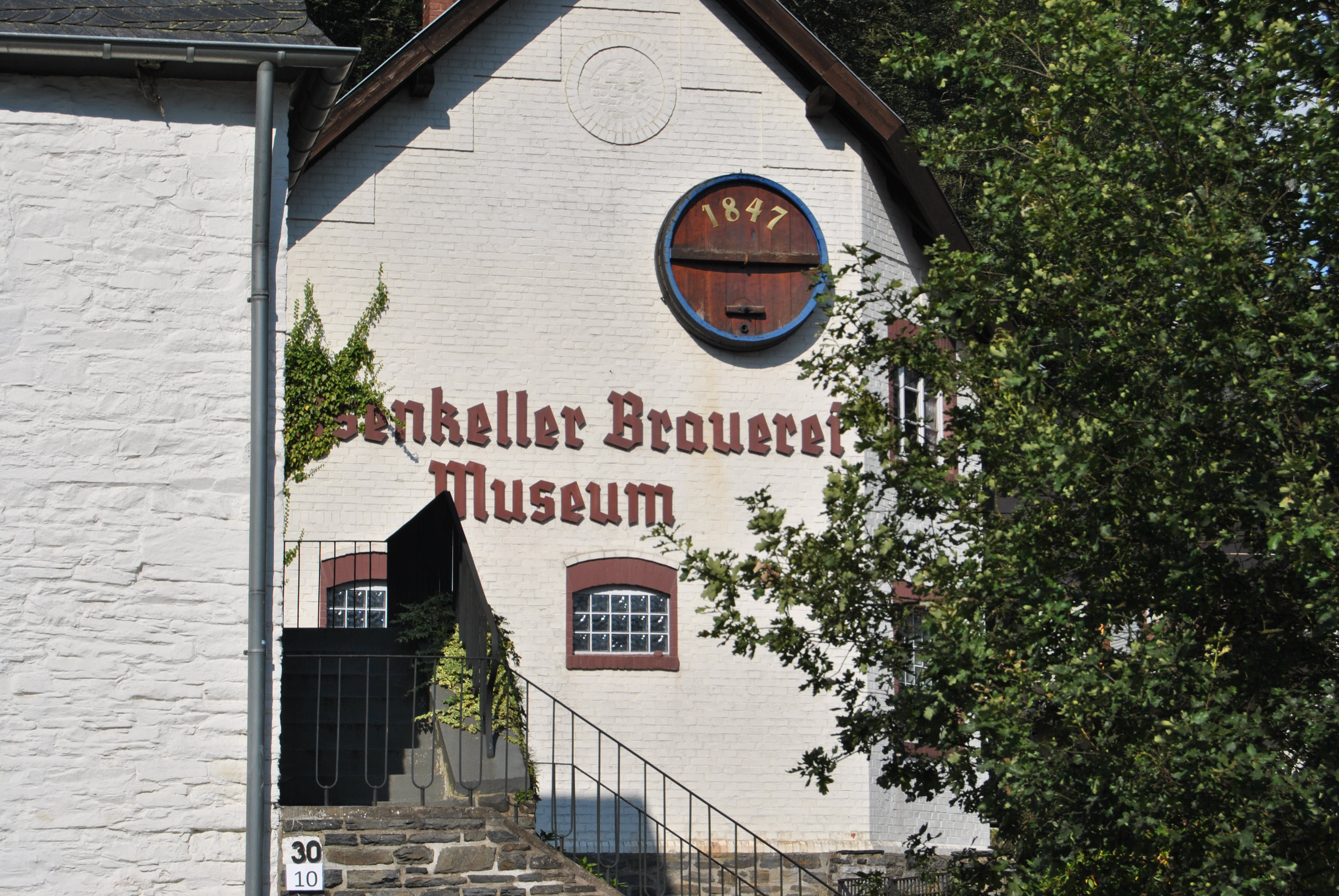 Monschau (North Rhine-Westphalia, Germany) – brewhouse and museum Felsenkeller (street St. Vither Straße 22,24,28) This image shows a heritage building in Germany, located in the North Rhine-Westphalian city Monschau (no. 209). This photograph was taken with a Nikon D3000